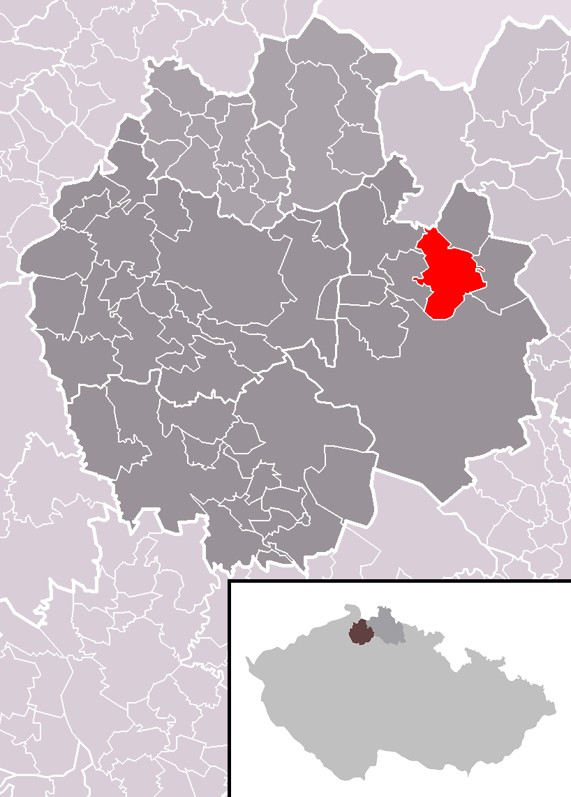 Location of Stráž pod Ralskem town within Česká Lípa District and administrative area of Česká Lípa as a Municipality with Extended Competence.